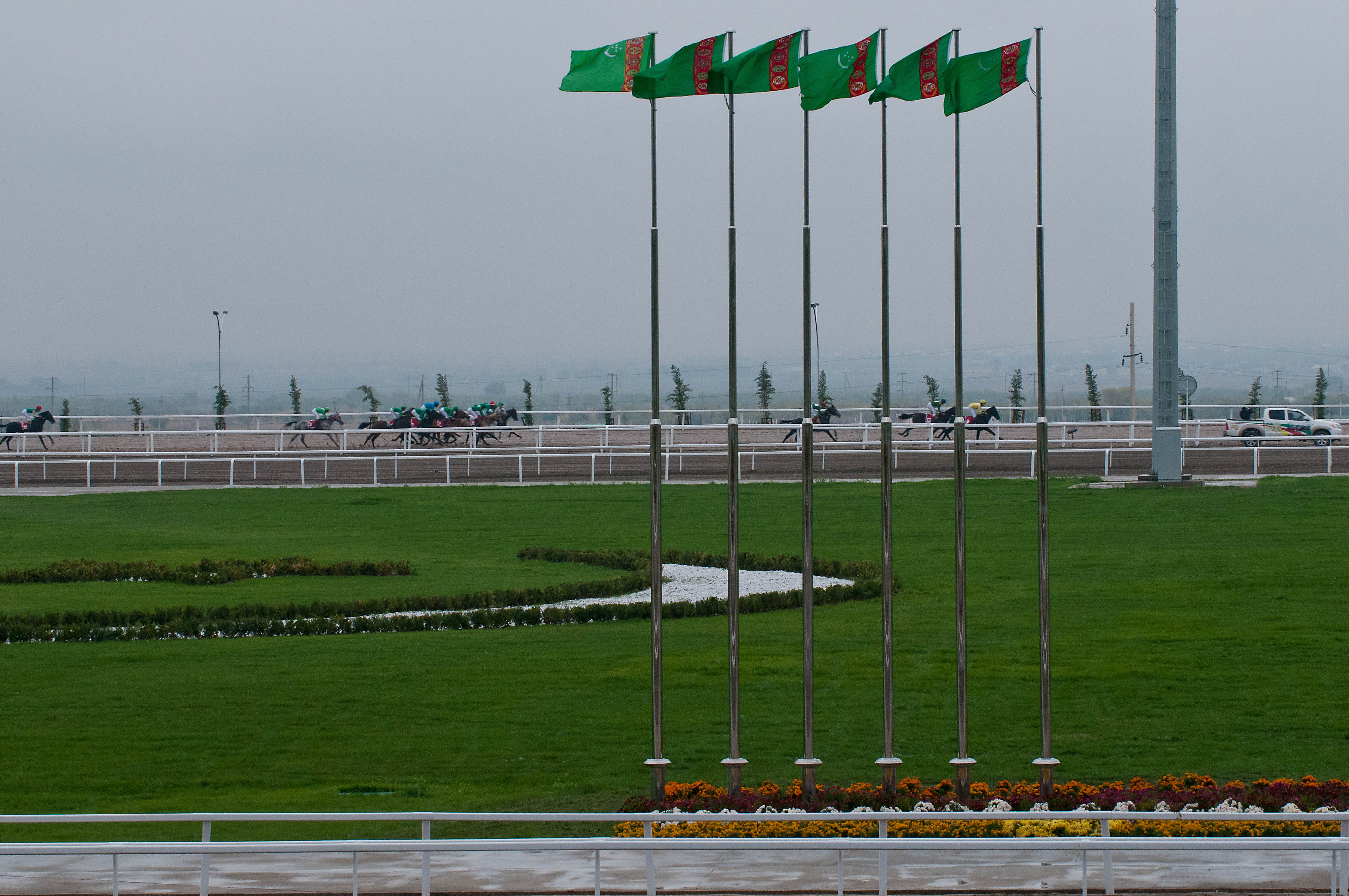 Opening of the Ahal Velayat Equestrian Complex